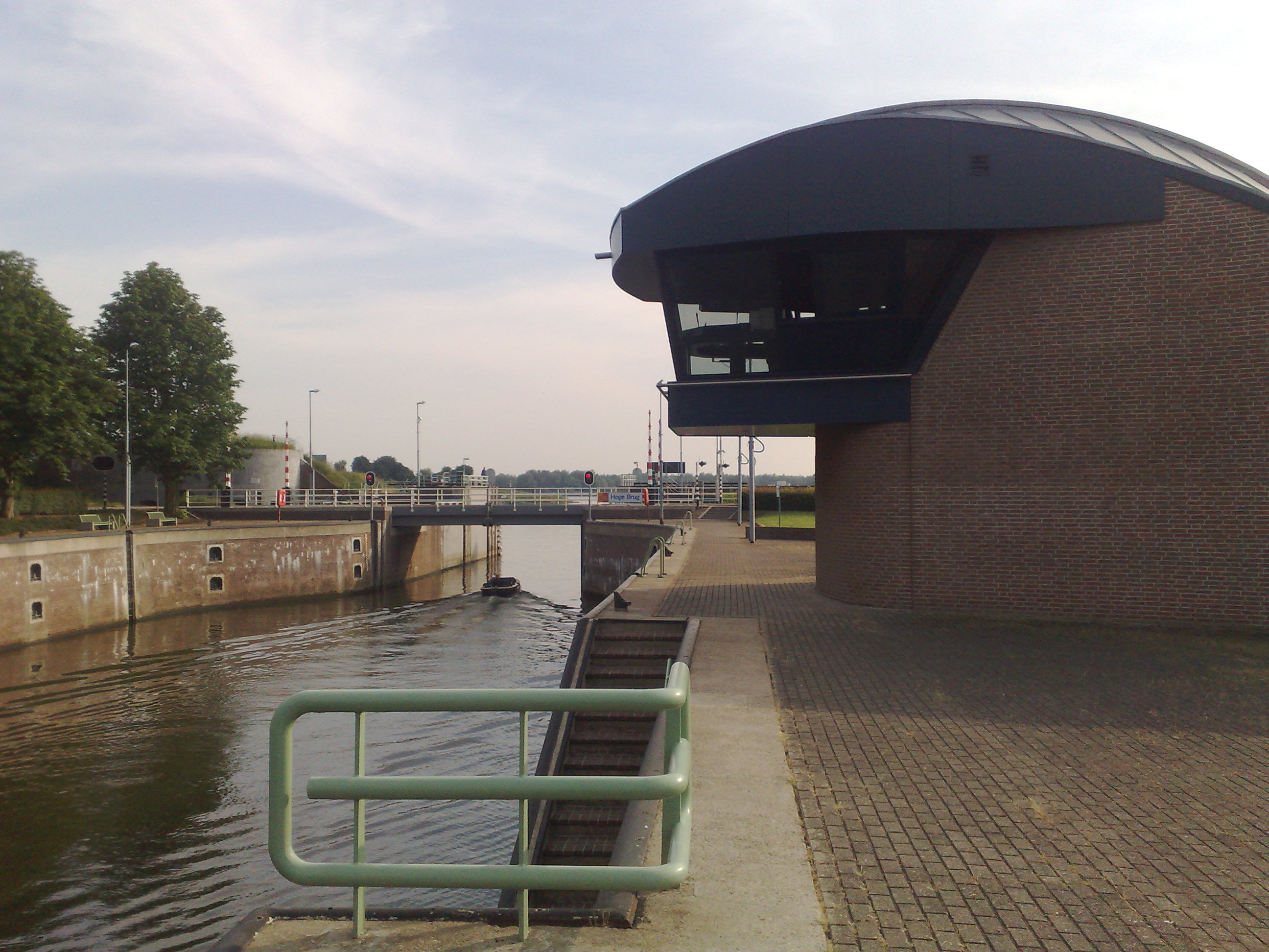 Sluice in Gorinchem with control building